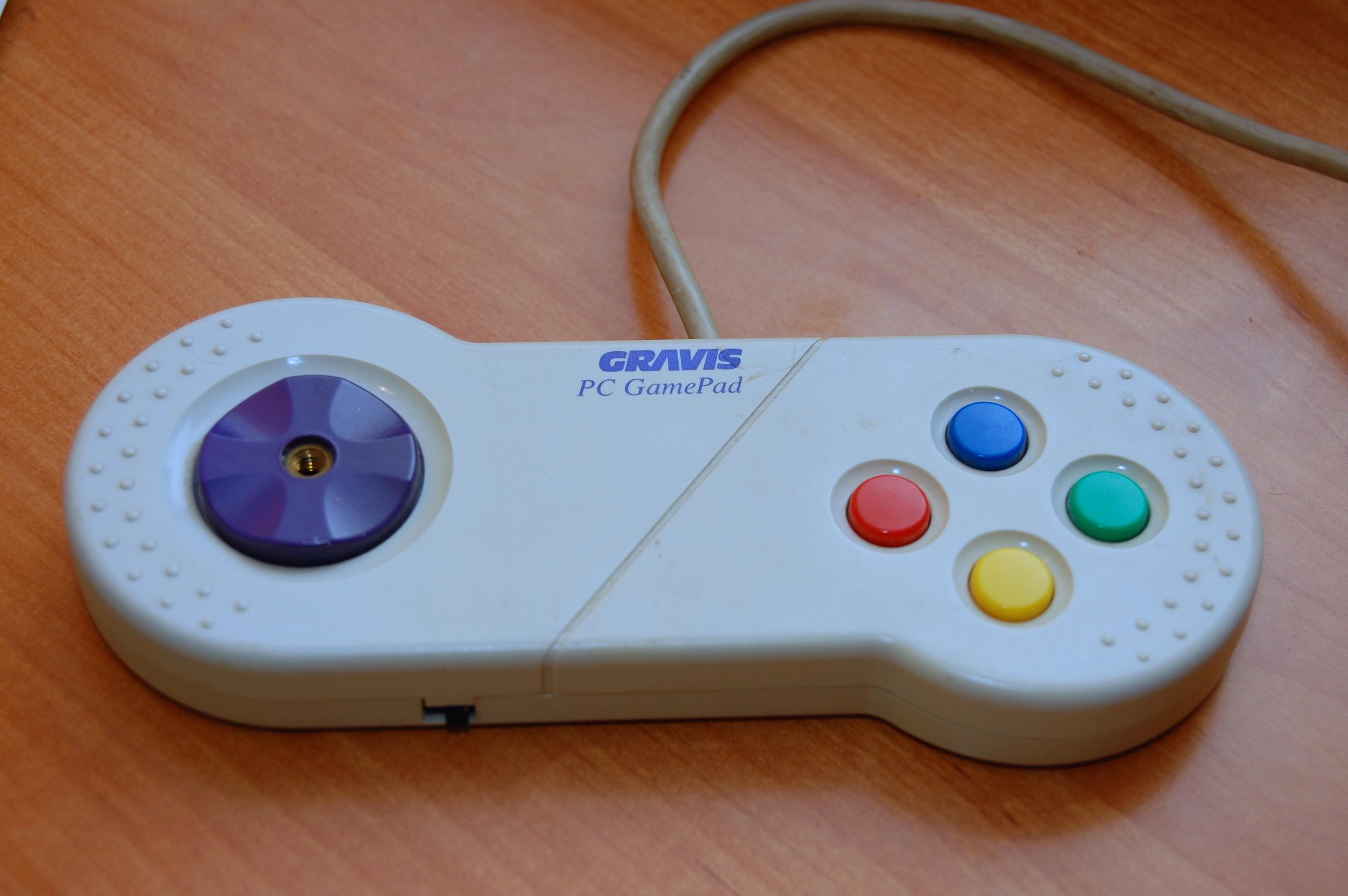 Gravis PC GamePad controller.